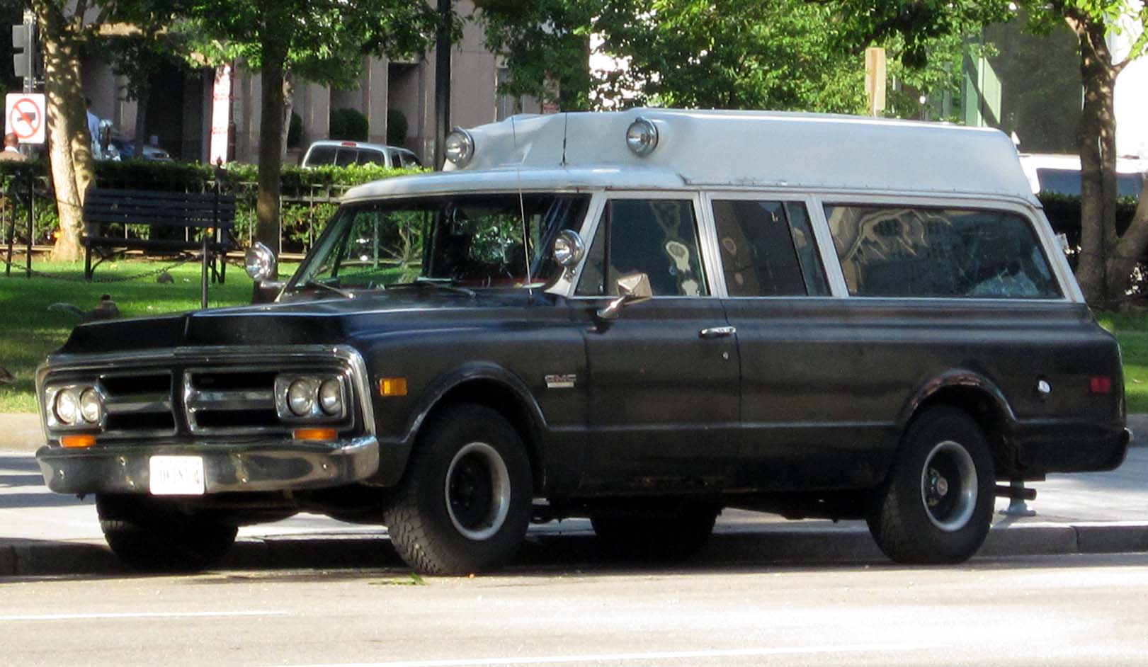 GMC Suburban photographed in Washington, D.C., USA.